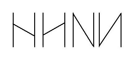 Evolution of the haglaz rune